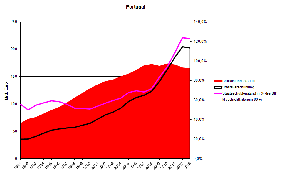 public debt, gdp, source of data for own computations ameco data from European commission